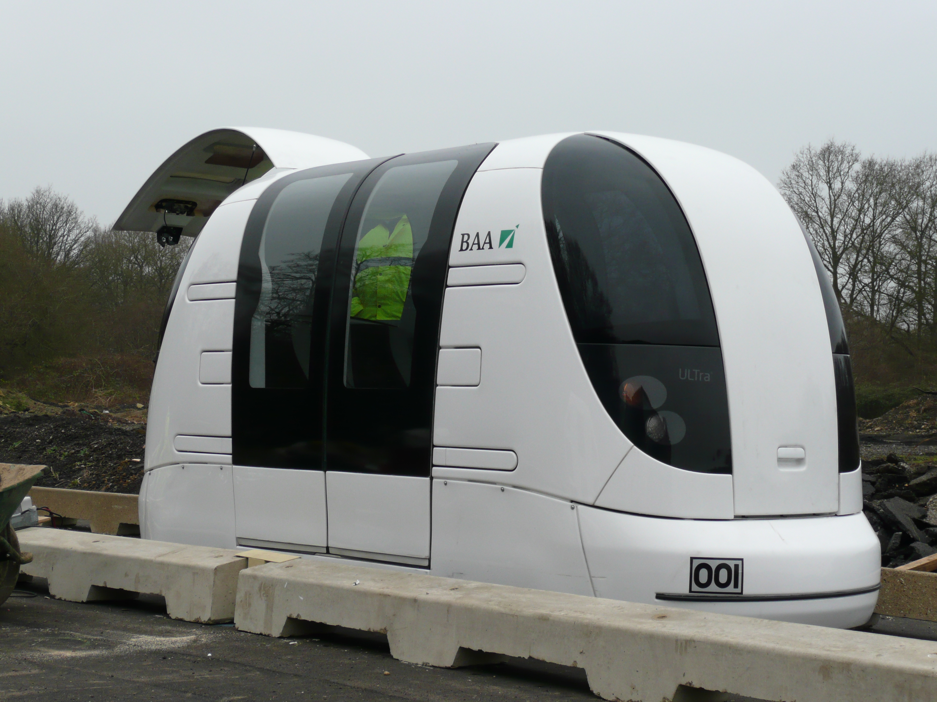 ULTra PRT (personal rapid transit) Production Vehicle #001